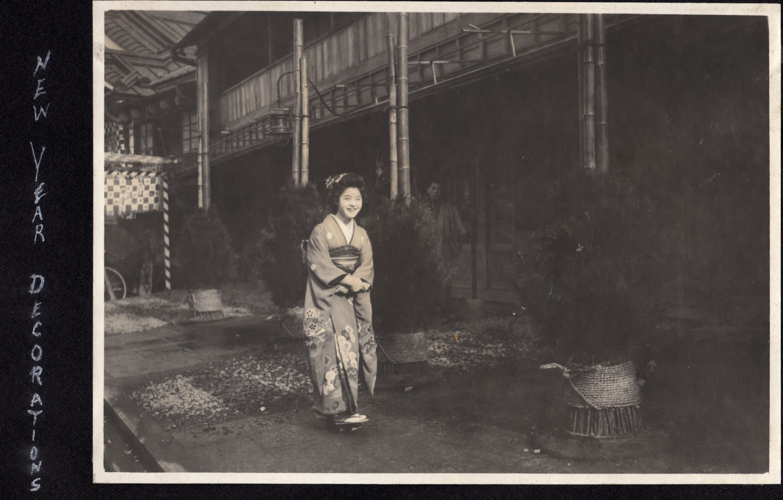 This photo is from an album my spouse's uncle Elstner Hilton compiled in Japan between 1914 and 1918. While Uncle Elstner was pretty good about annotating the photos that required an explanation of some sort, he did not date the pictures. So all we know is they date to between January, 1914 and December, 1918.